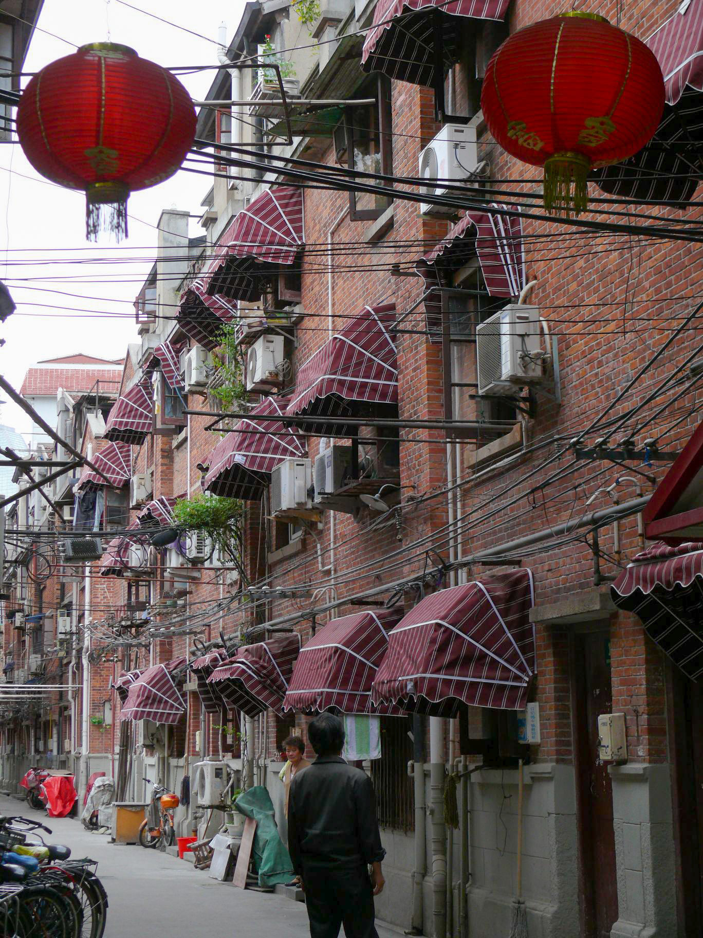 "Cité Bourgogne", a lilong (里弄) in Shanghai (China).